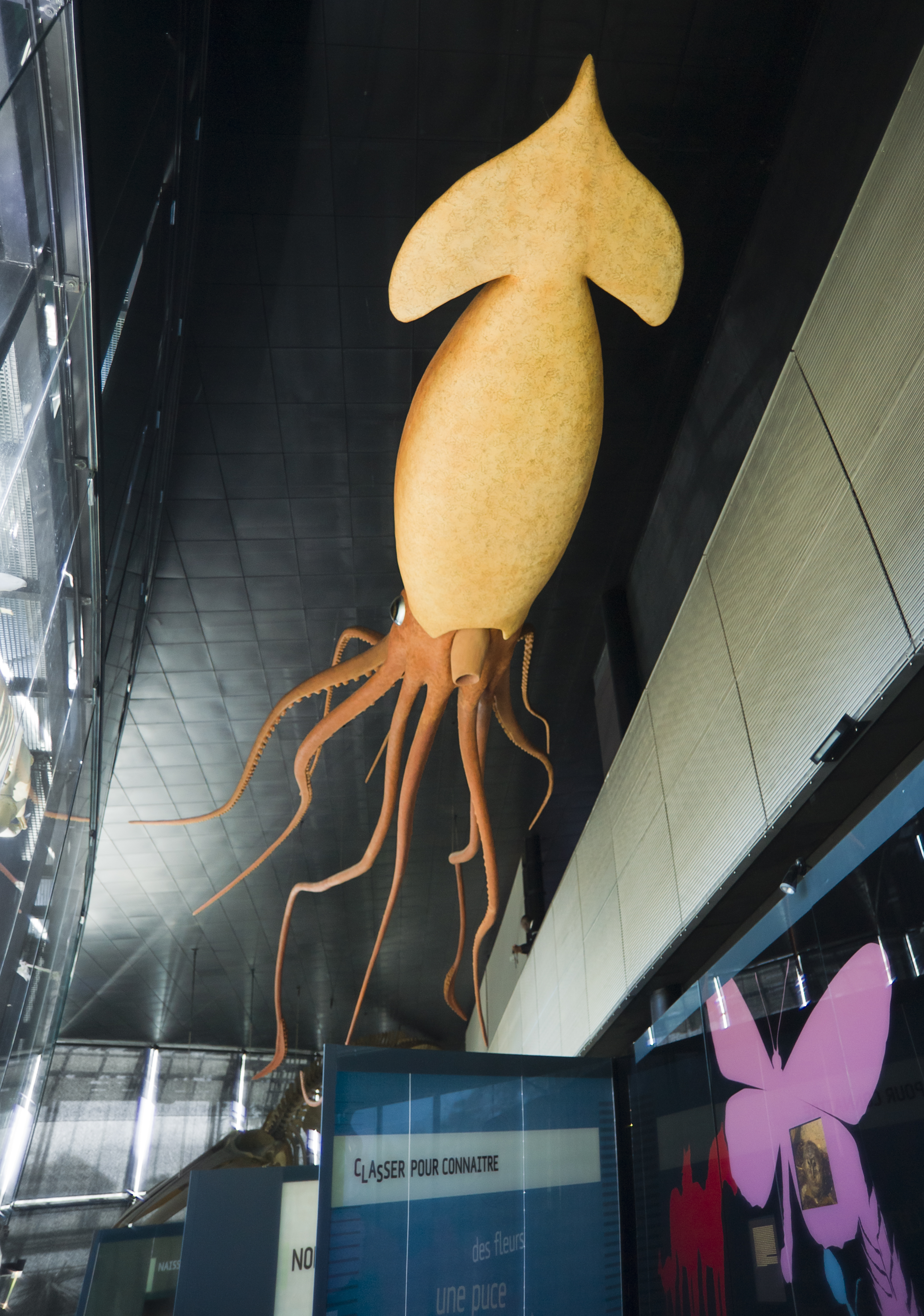 Museum of Toulouse Giant squid - Architeuthis dux – Reconstitution (17 meters)